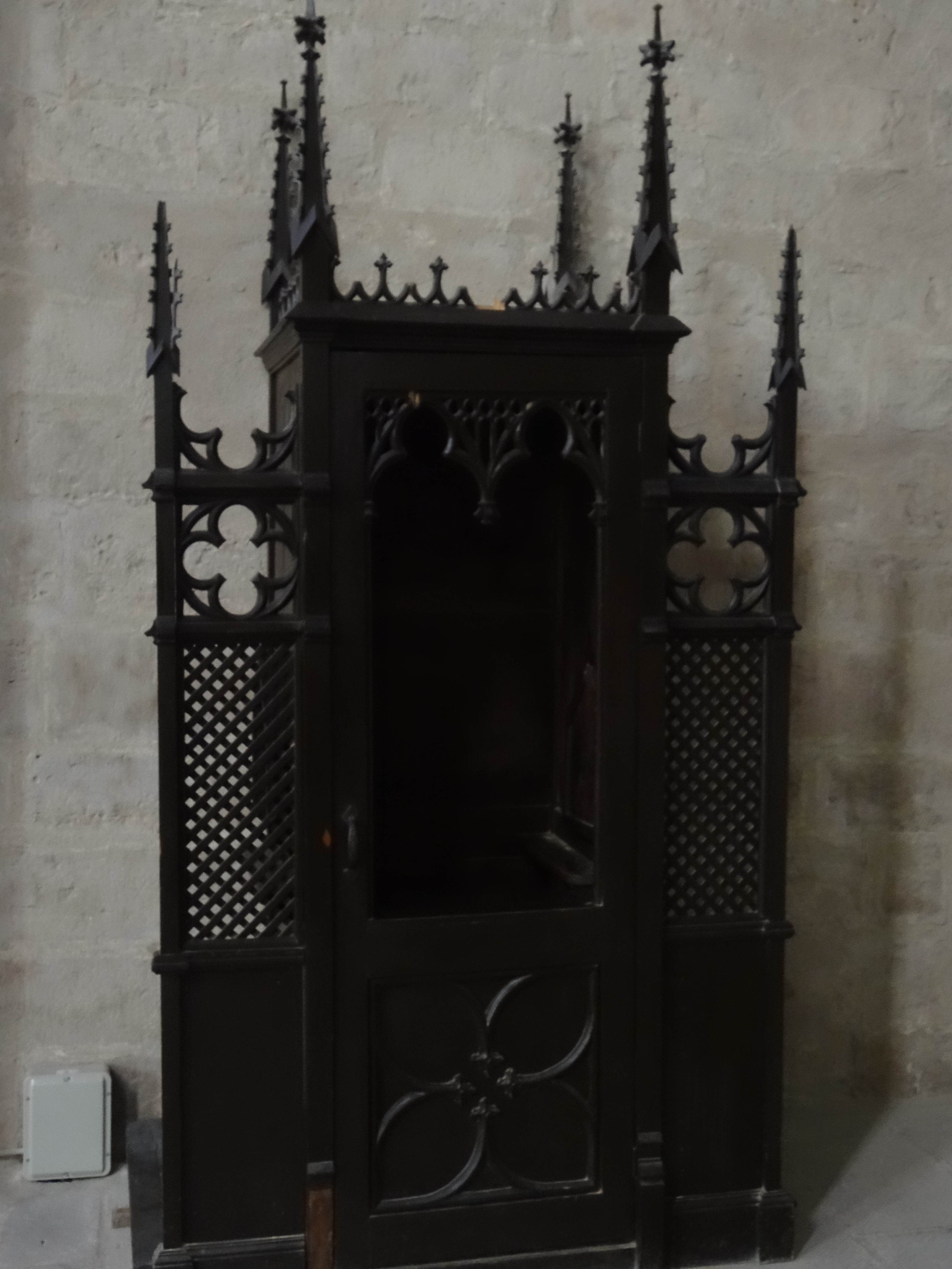 confessional located in Santa Maria la Major Church in Montblanc (Tarragona , Spain)